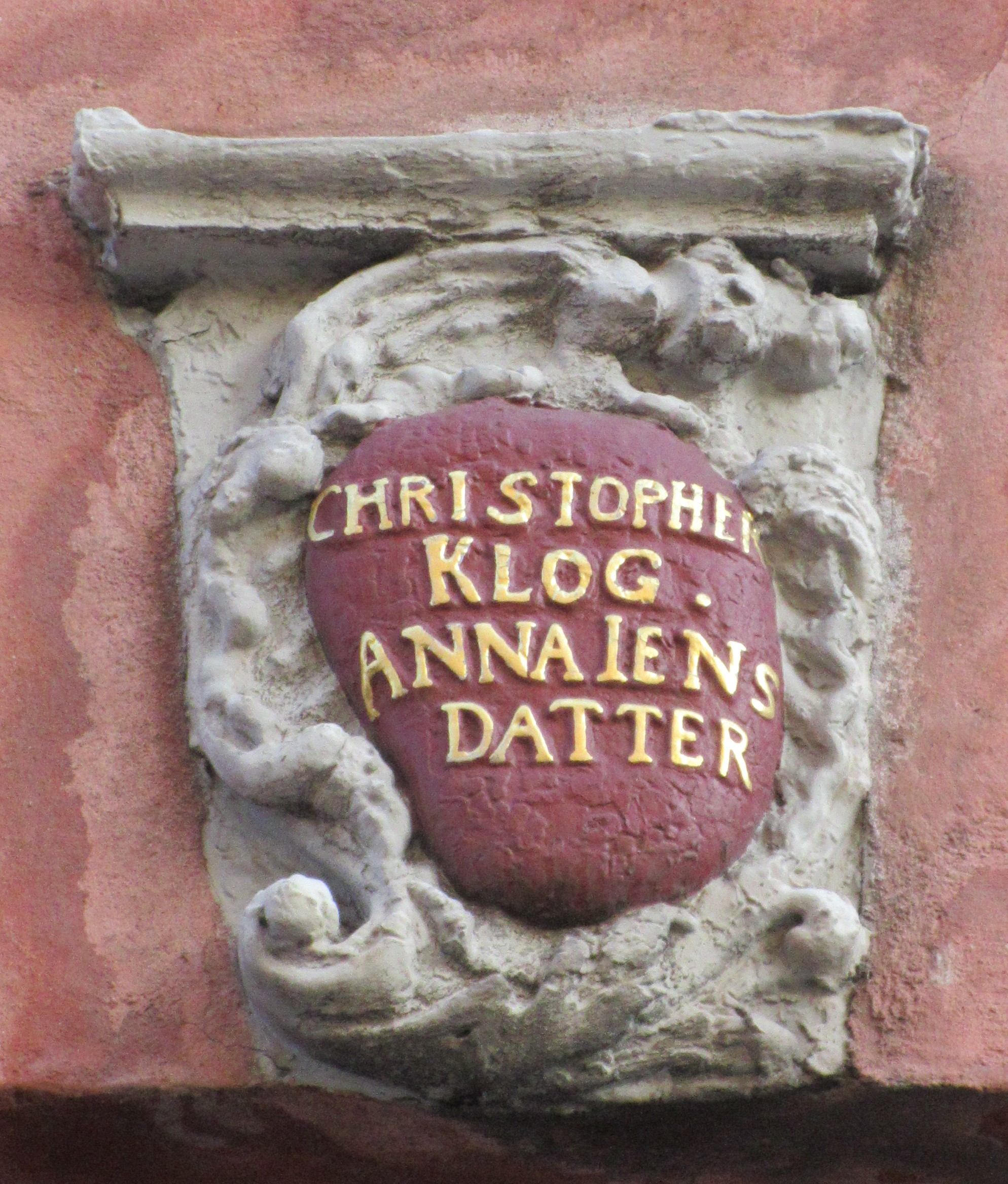 Keystone with inscription above the gate at Niels Hemmingsens Gade 32 in Copenhagen, Denmark